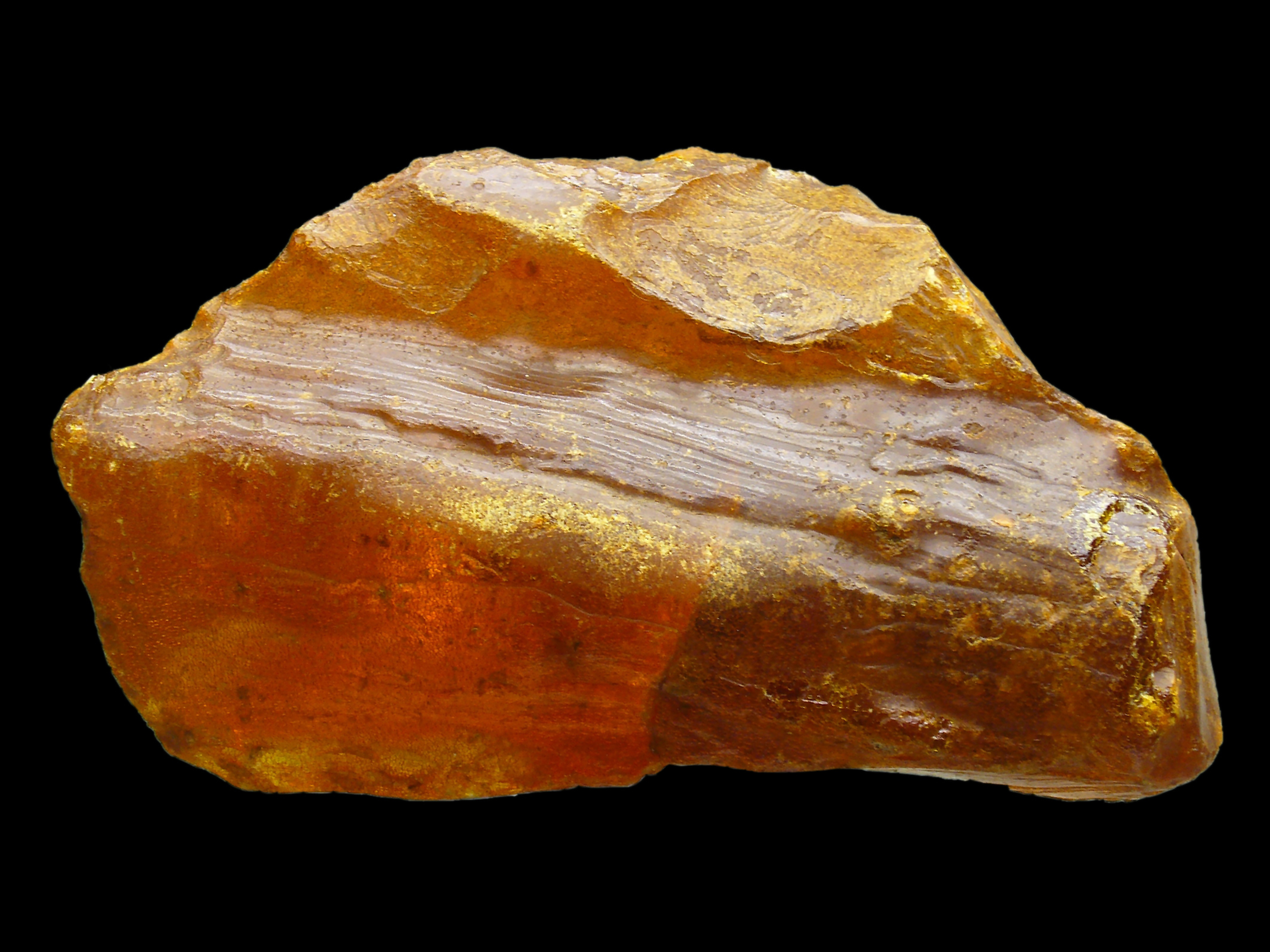 Amber, Colombia; Staatliches Museum für Naturkunde Karlsruhe, Germany. Amber is used in homeopathy as remedy: Succinum (Succ.)